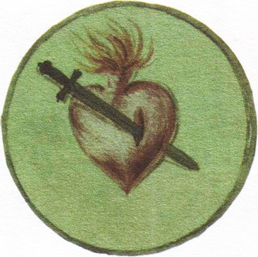 Coat of Arms of Hieraniony (1792)